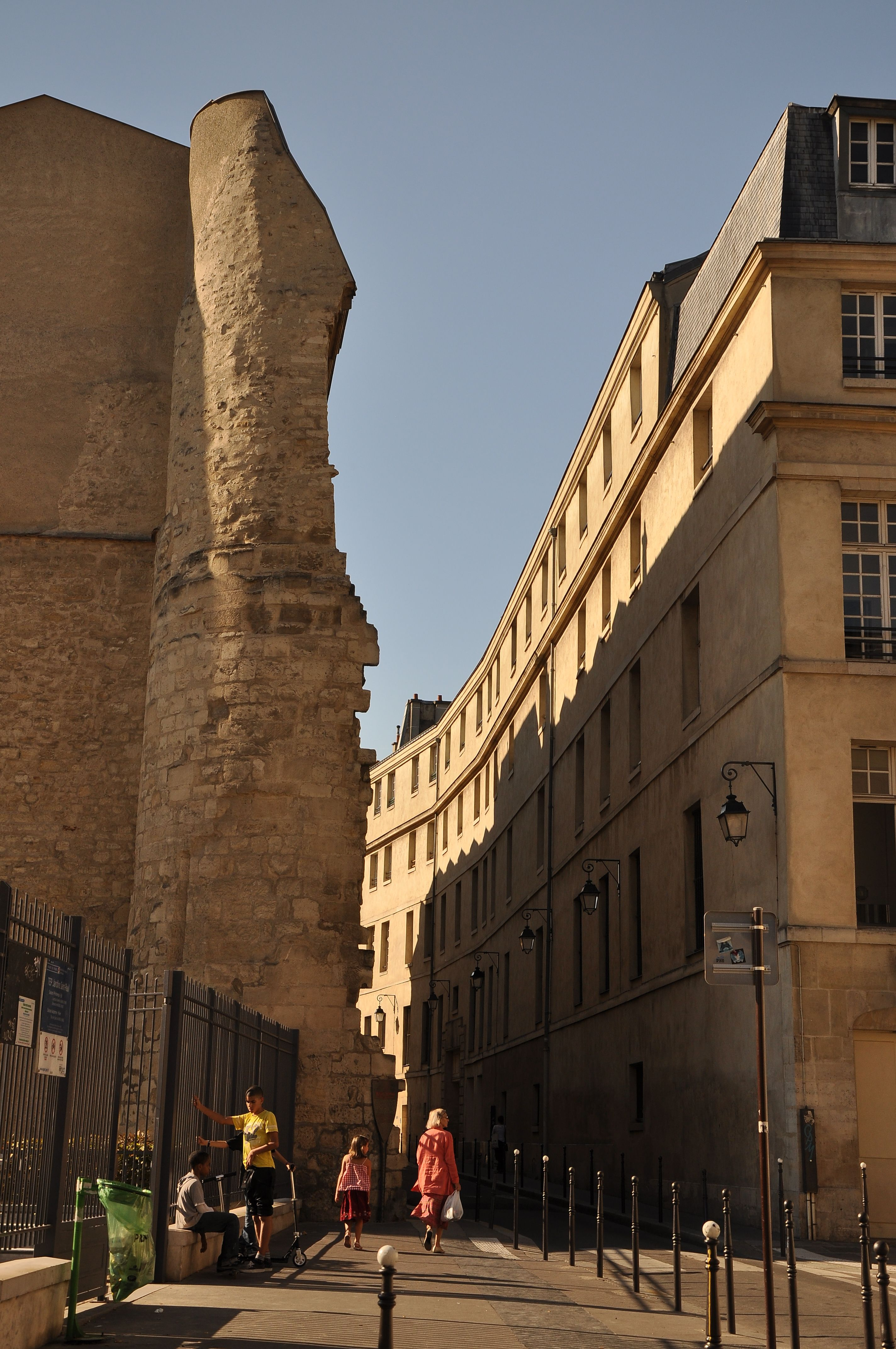 Wall of Philip II Augustus, Paris 4th district, France 12th century